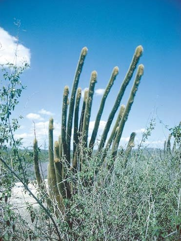 ssp. chrysostele in Rio Grande do Norte, Brasil